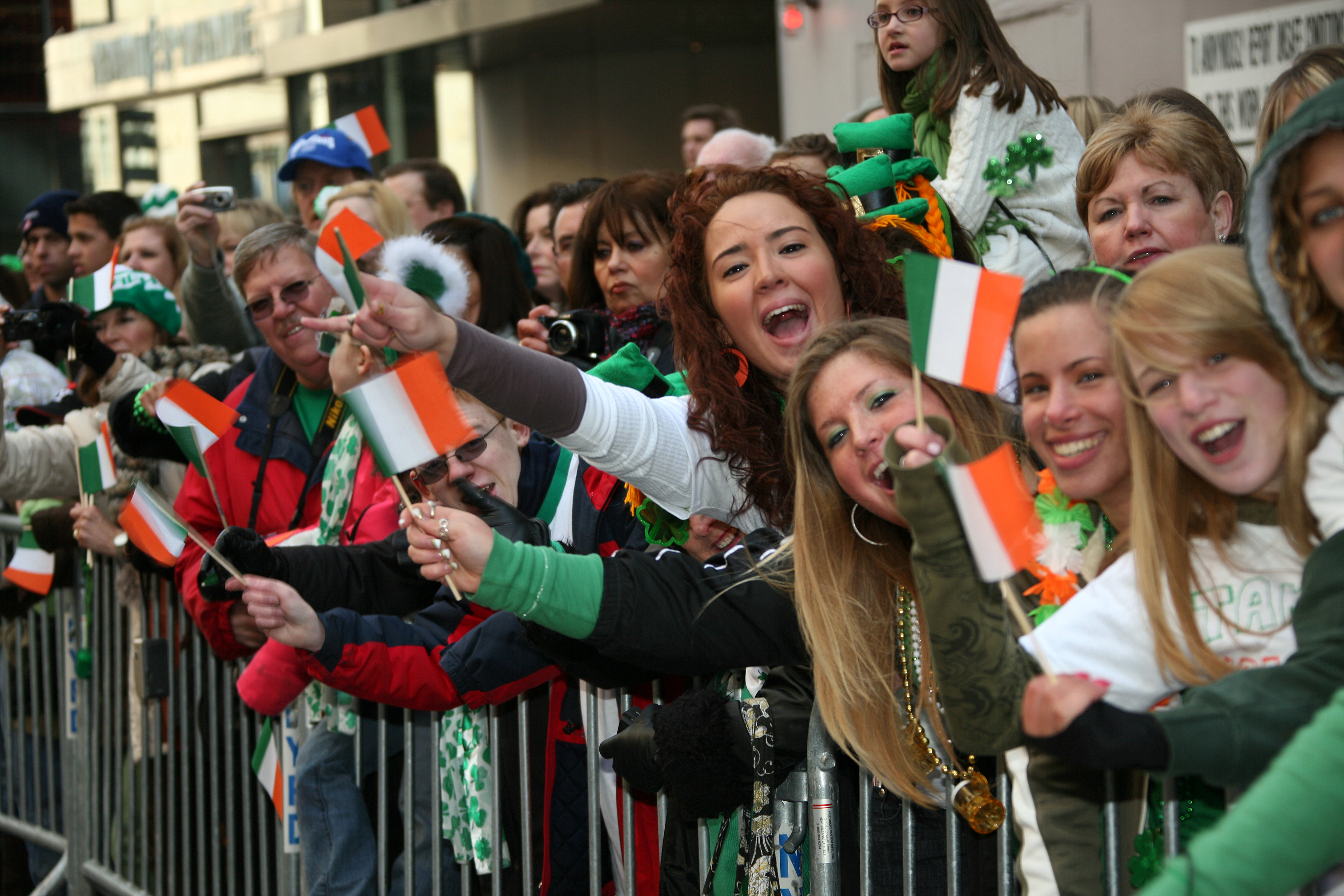 Excited onlookers wave to members of the 2nd Marine Aircraft Wing Band during the New York City St. Patrick’s Day parade March 17.